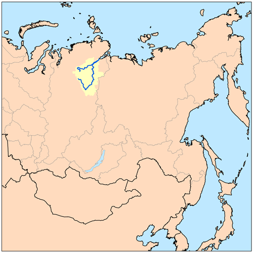 This is a map of the Khatanga River drainage basin, including the Kheta River (to the north) and Kotuy River (to the south), with the addition of national borders.